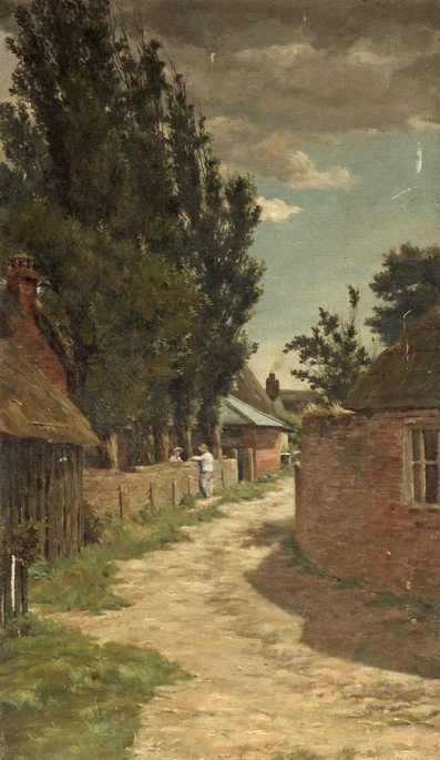 Wick Lane from Wick Ferry, landscape at Wick, Bournemouth, England, by Alfred Lys Baldry (1858-1939).